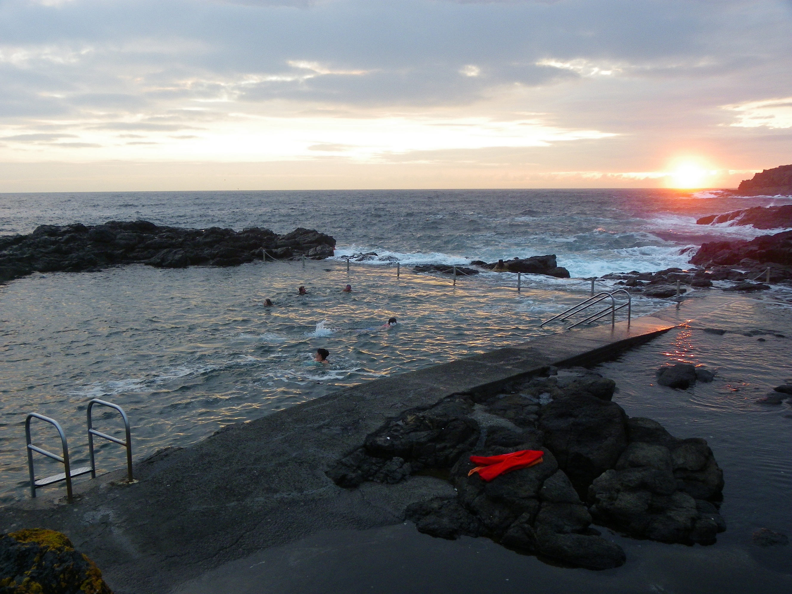 Early morning bathers using the sea batch at sunrise, Kiama, New South Wales